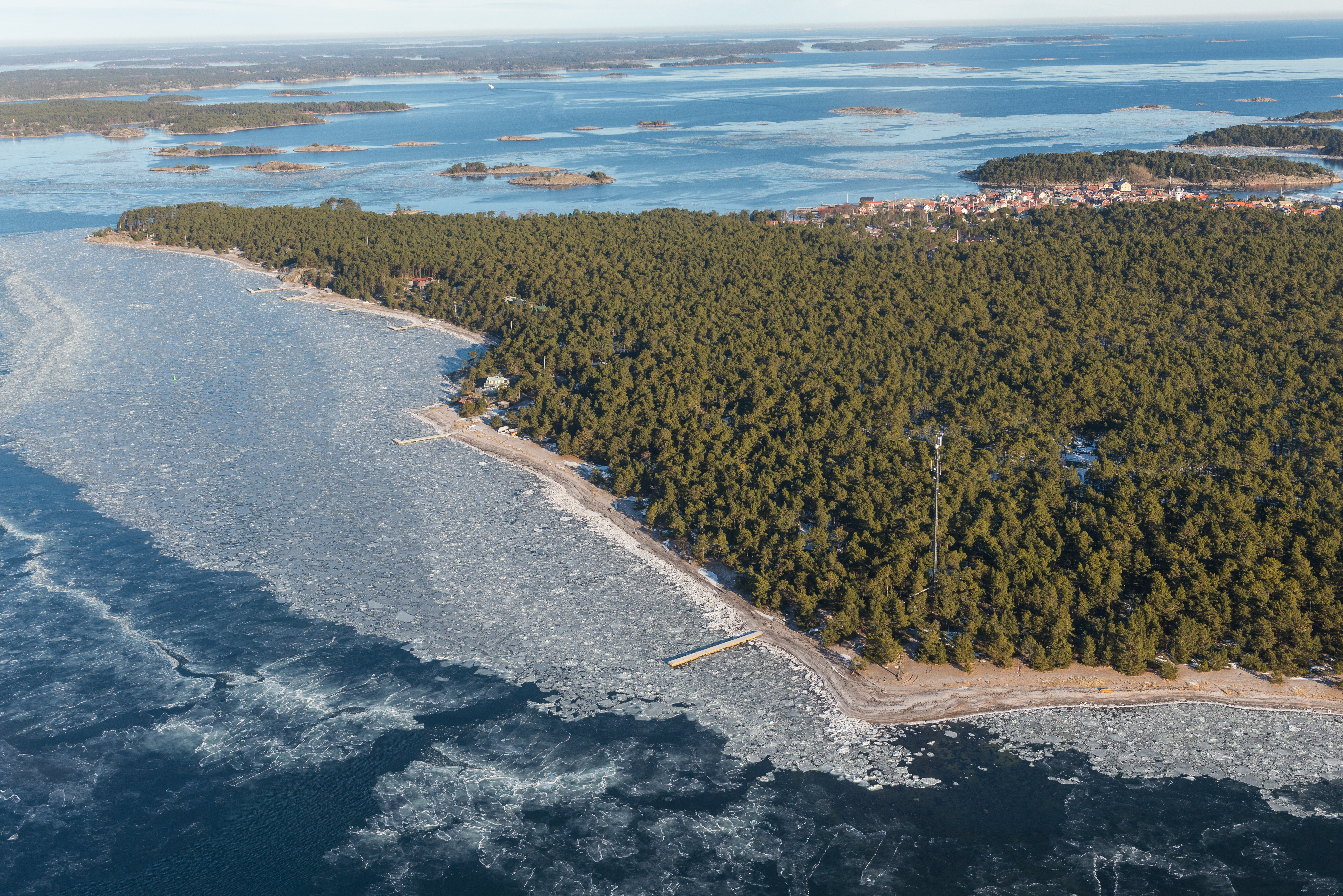 Sandhamn